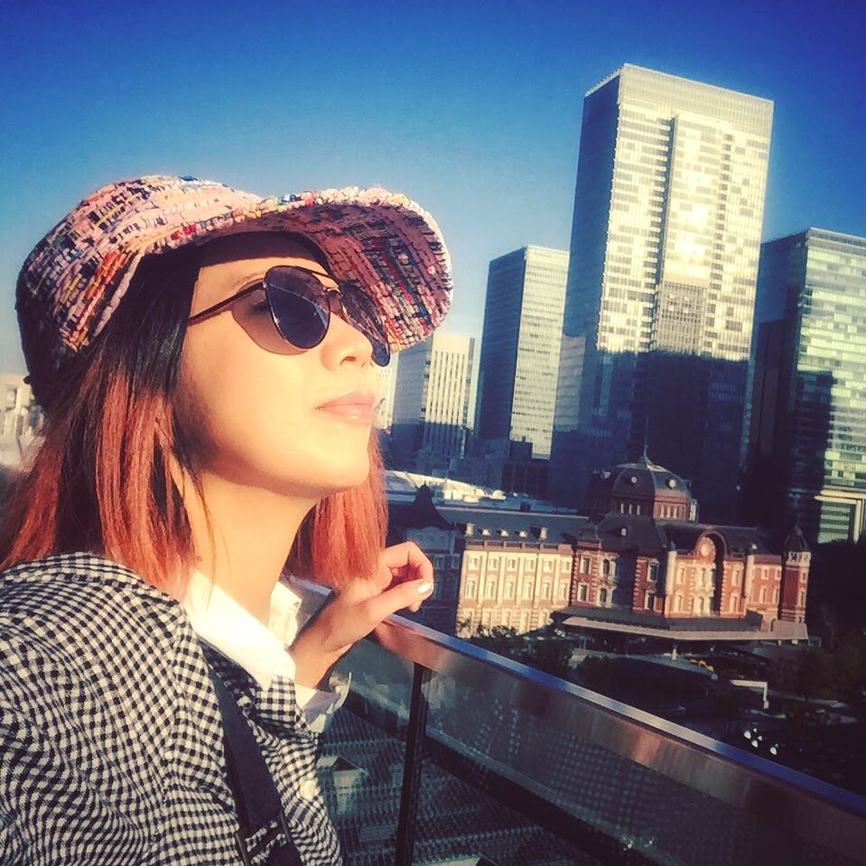 Japanese musician, creative director ITSUKA at Tokyo Station